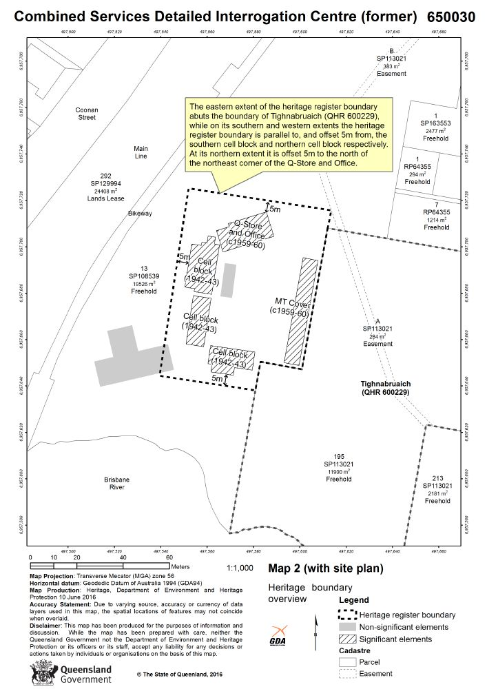 Heritage Register Boundary - Map 2 (2016)